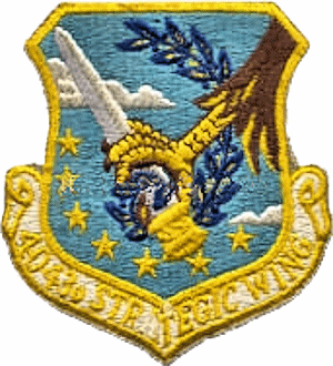 4043d Strategic Wing emblem. A copy of this emblem was downloaded from for use in my book “The Genealogy of the STRATEGIC AIR COMMAND” with the webmasters’ approval.